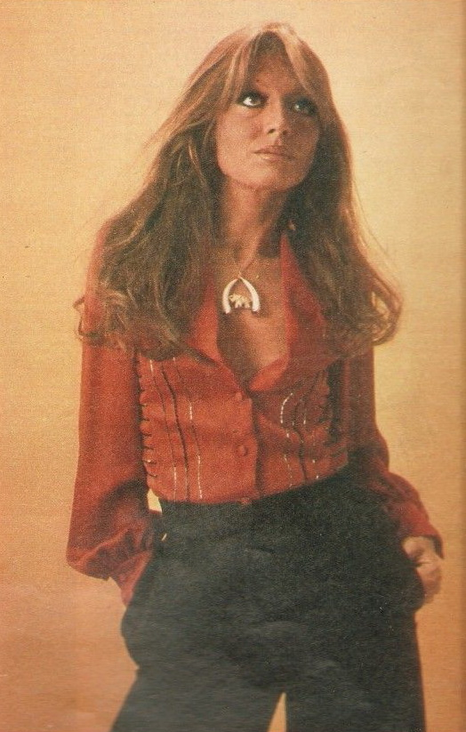 Italian actress Alida Chelli, Varese.